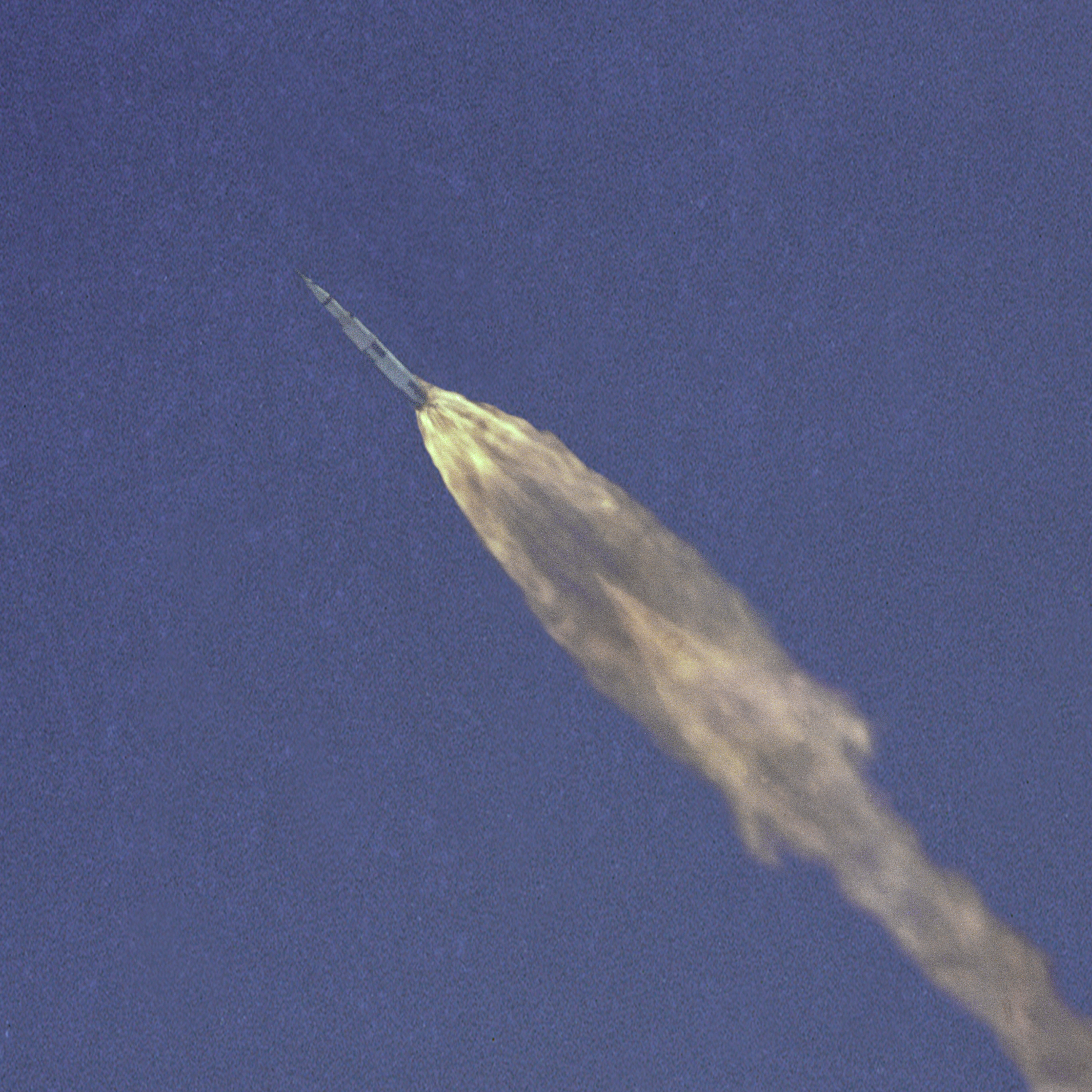 The Apollo 10 (Spacecraft 106/Lunar Module 4/Saturn 505) space vehicle is launched from Pad B, Launch Complex 39, Kennedy Space Center at 12:49 p.m., May 18, 1969.